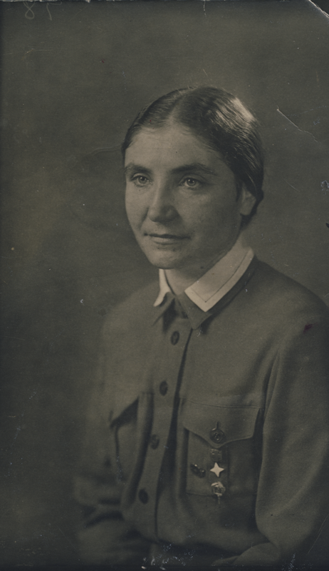 Photograph of the Finnish politician Saara Forsius (1902–1988).